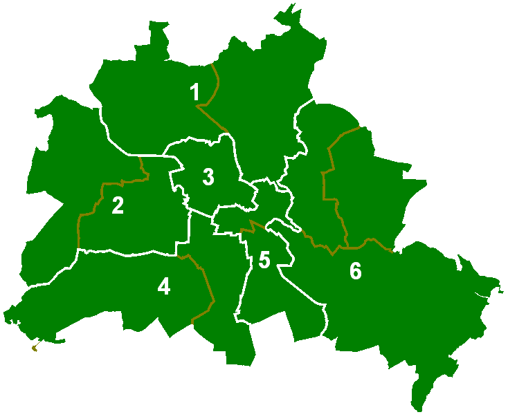 Berliner map divided into the 6 directorates (Direktion) of the Berlin Police (Der Polizeipräsident in Berlin)